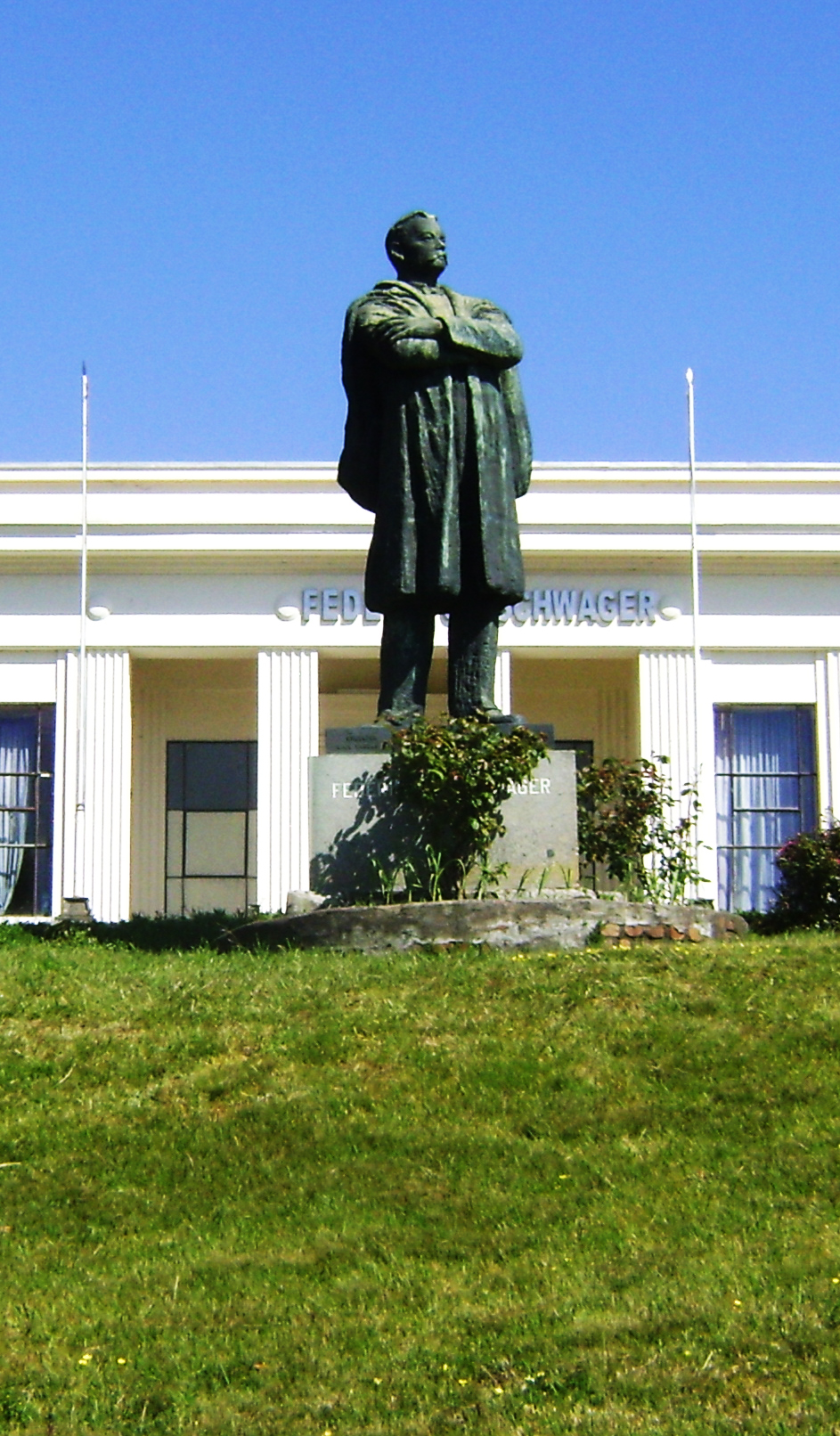 Statue of Federico Schwager